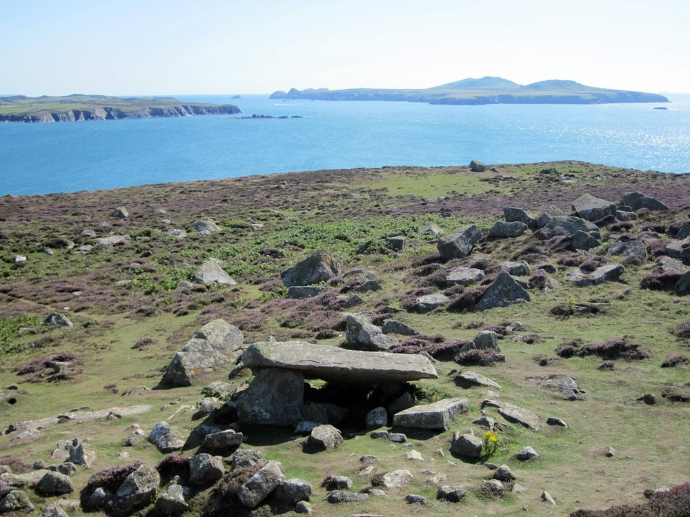 Arthur's Quoit St David's Head Pembrokeshire UK